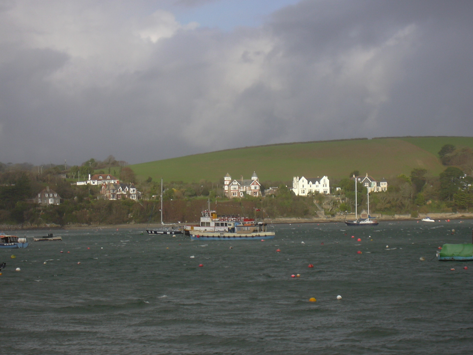 Flushing, from Fish Strand Quay, Falmouth, showing large houses on Trefusis Road